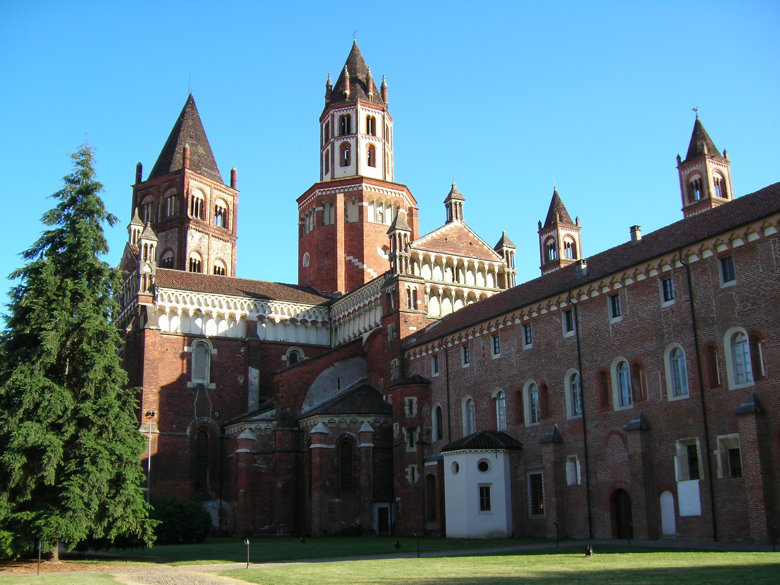 Basilica S.Andrea